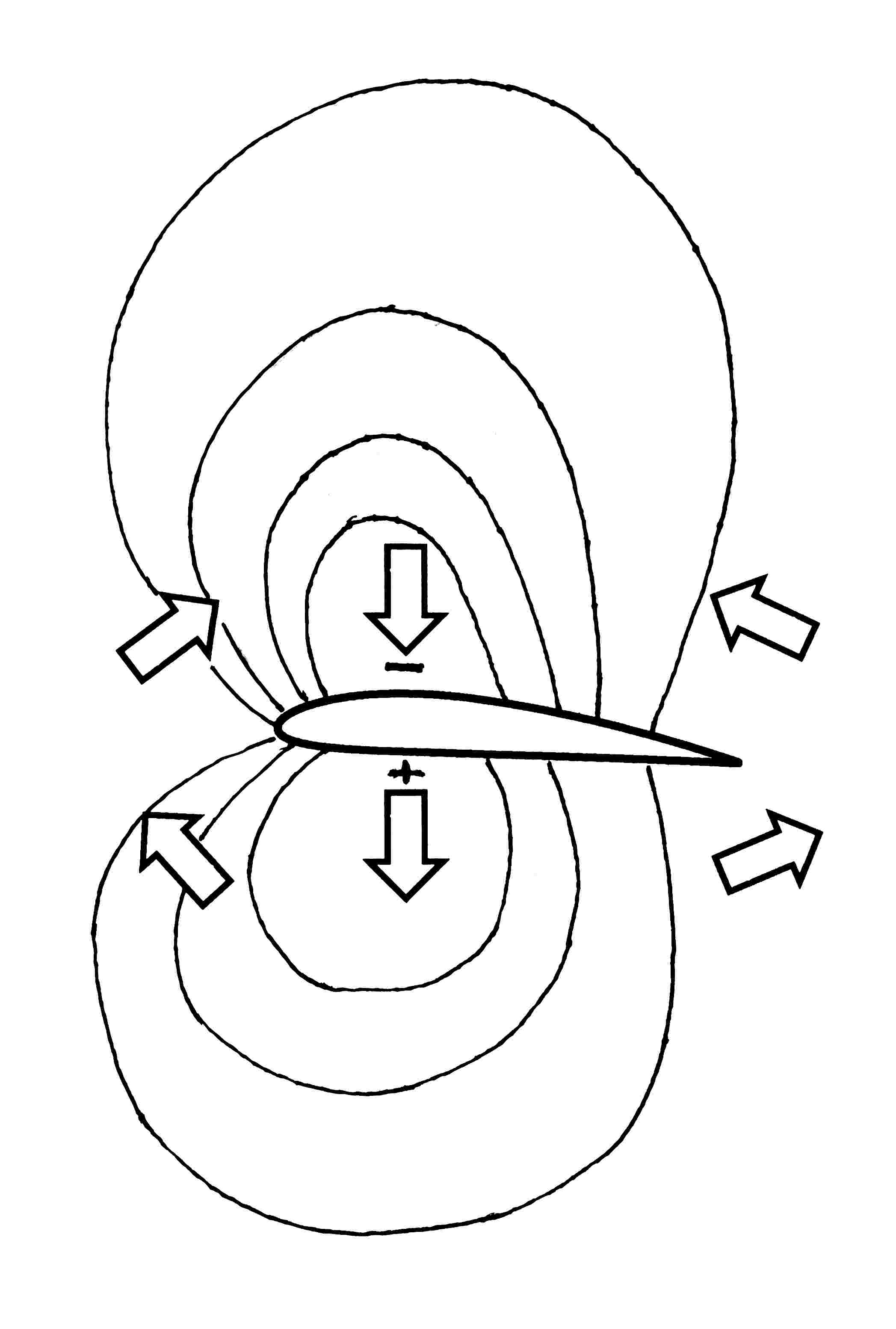 Drawing of the pressure distribution around a lifting airfoil in terms of isobars Other information No